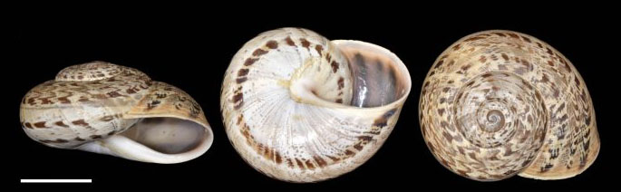 Composition of the 3 main views of the shell of Allognathus campanyonii n. ssp. Locality: Andratx (Mallorca)